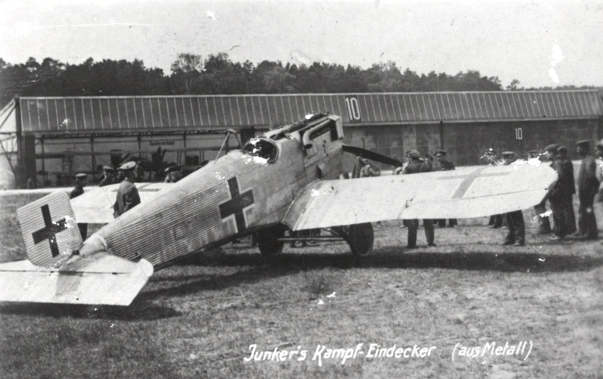 Junkers D.I German First World War all-metal fighter